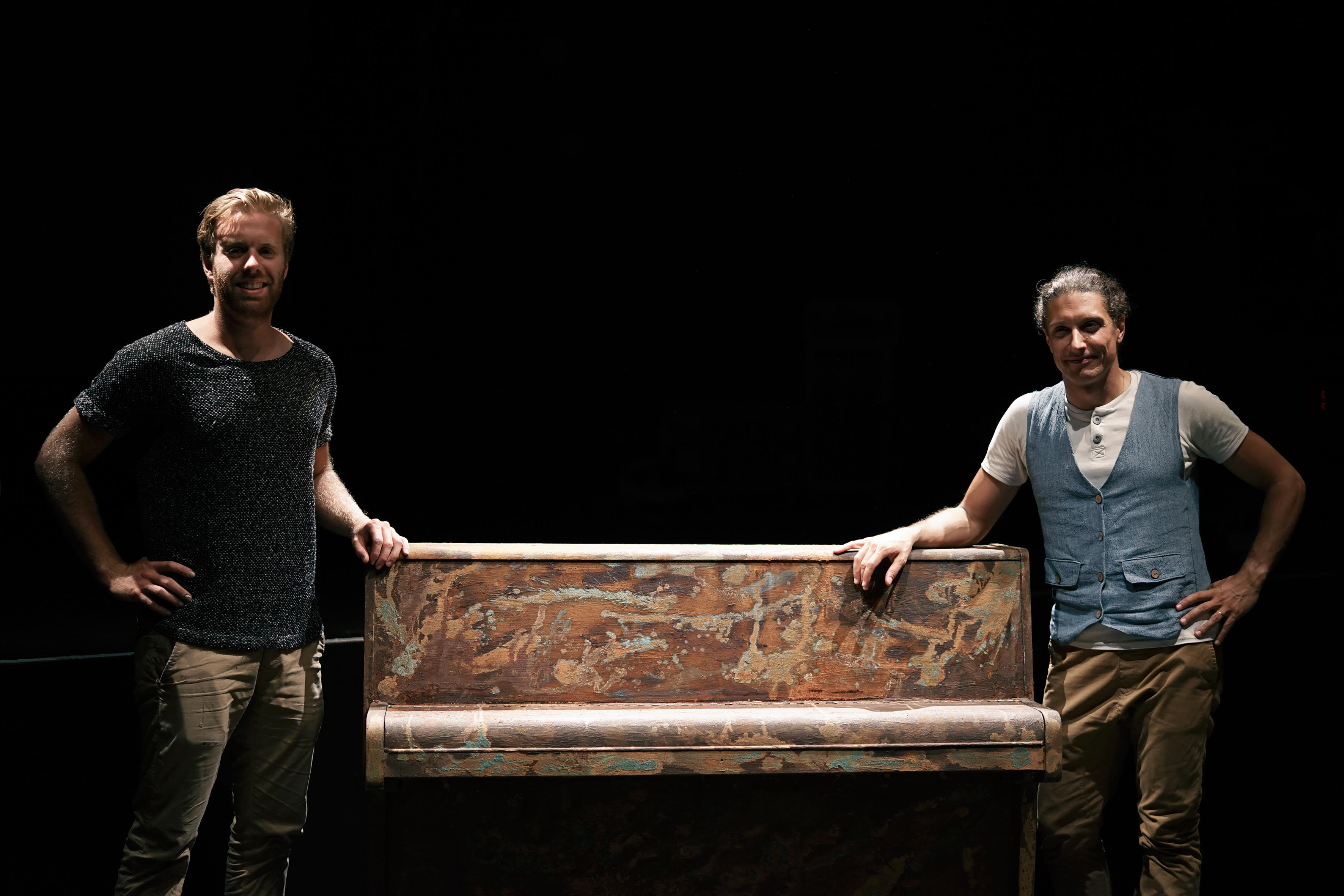 David Ianni the pianist and Raphael Gindt the artist with the rusty piano - Episode 2 of MY URBAN PIANO, dedicated to the city of Esch-sur-Alzette. It's an ode to Iannis old home region, the "Minett" (south of Luxembourg), "his" HEARTLAND.